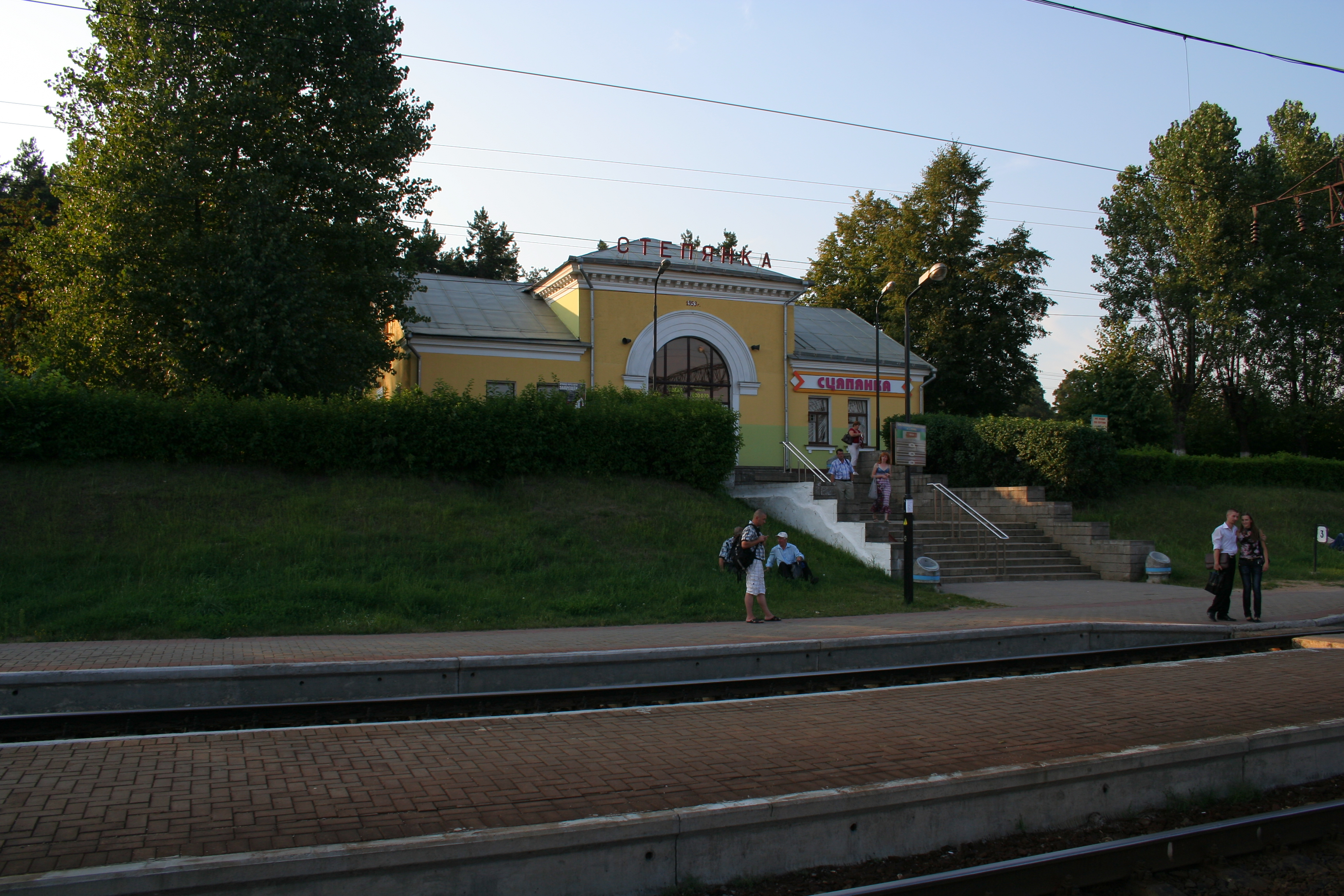 Views of Minsk (Belarus). Rail platform Stepyanka.